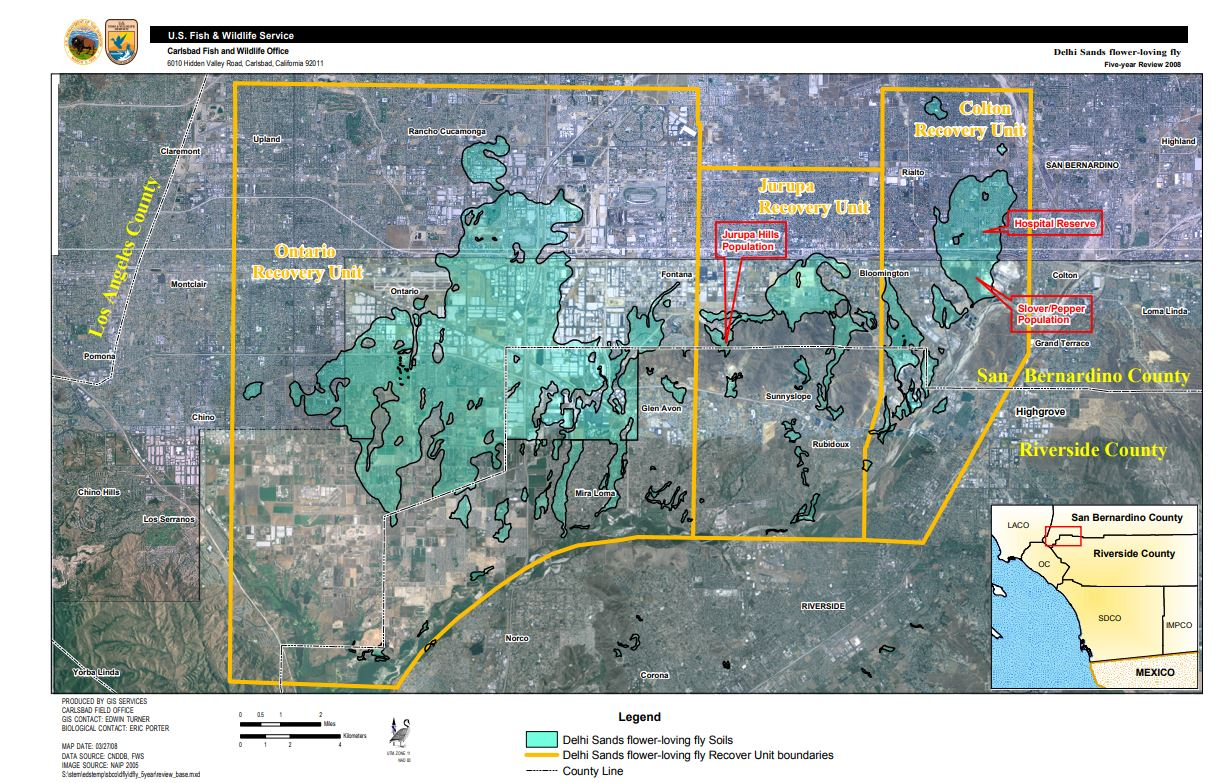 Recovery Unit map for the DSF from USFWS